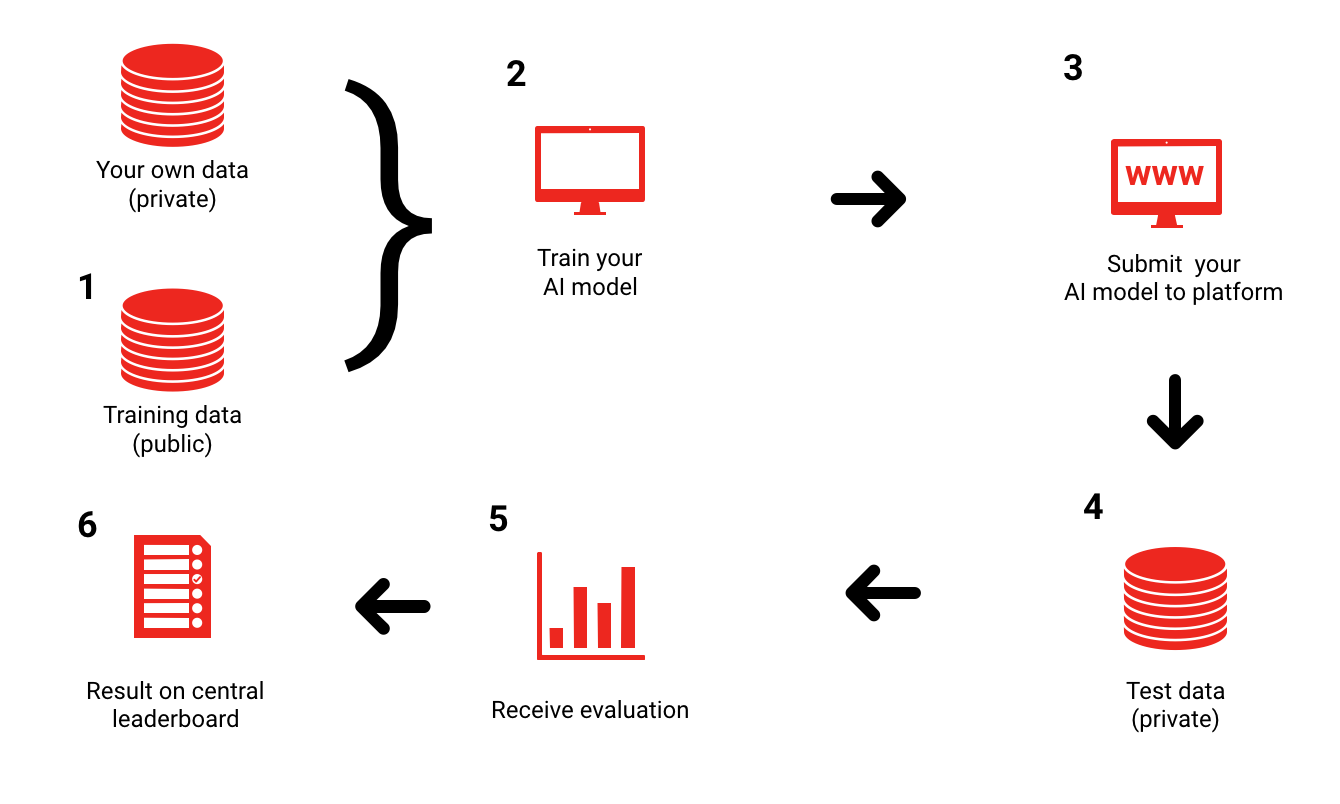 An overview of the ITU-WHO FG-AI4H Benchmarking Framework.